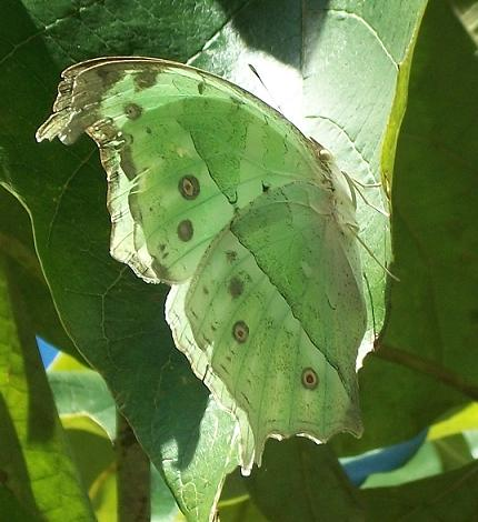 Protogoniomorpha parhassus aethiops at Ilanda Wilds, South Africa. Same individual as this - File:Common_Mother-of-pearl_Ilanda_18_06_2010_2.JPG